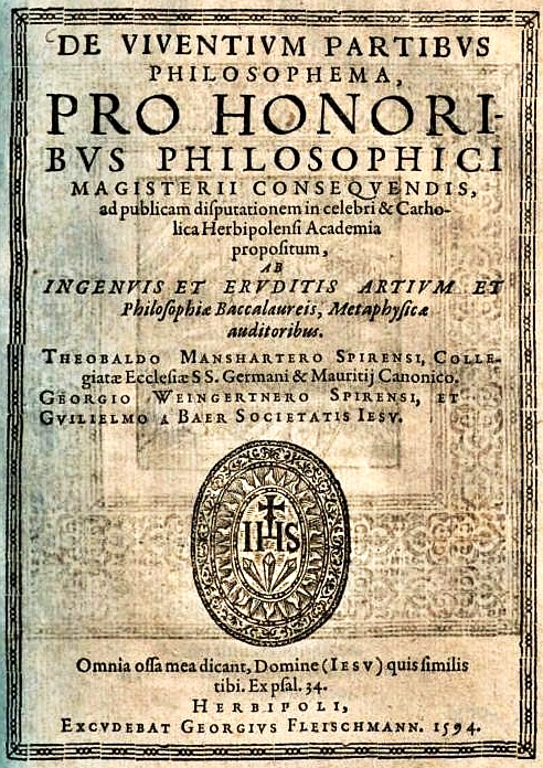 Titelblatt einer wissenschaftlichen Arbeit des Speyerer Weihbischofs Theobald Mansharter, Würzburg 1594